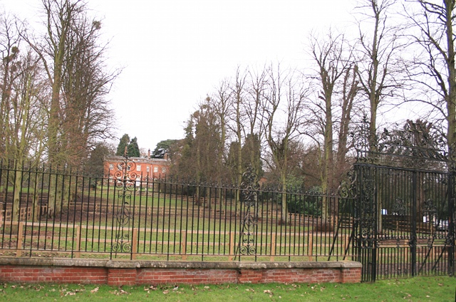 Durdans (1)